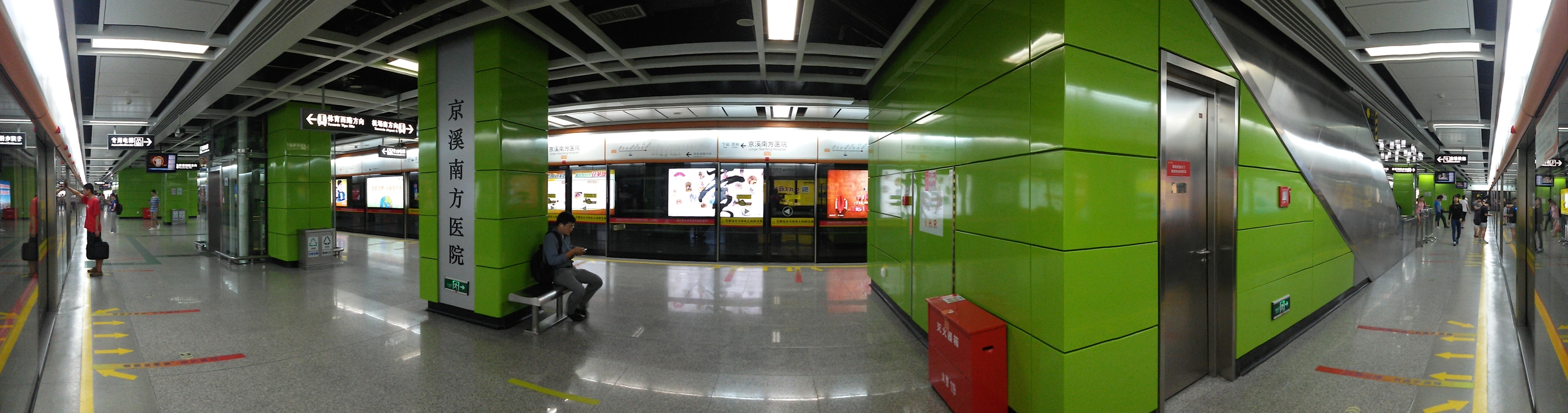 FULL SIGHT of Platform for Jingxi Nanfang Hospital Station in Guangzhou Metro 粵語: 廣州地鐵，京溪南方醫院站嘅月台全景。